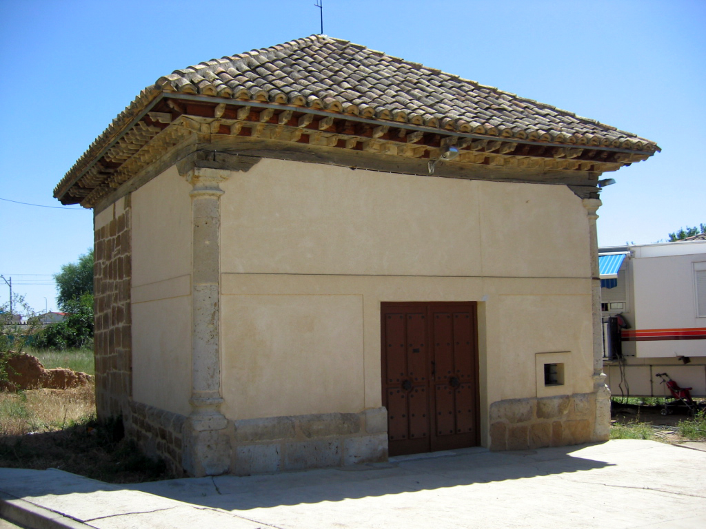 Hermitage of La Piedad in Osorno la Mayor (Palencia, Castile and León).